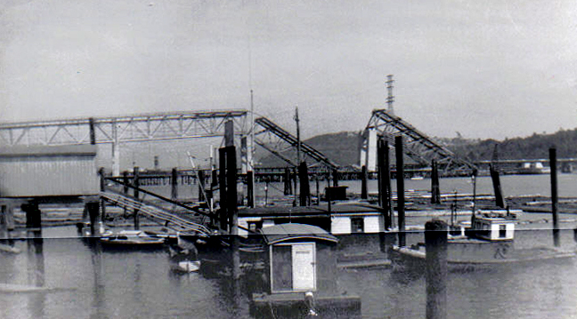 View (looking east) of new Second Narrows Bridge, 2 months after the collapse of 2 spans.